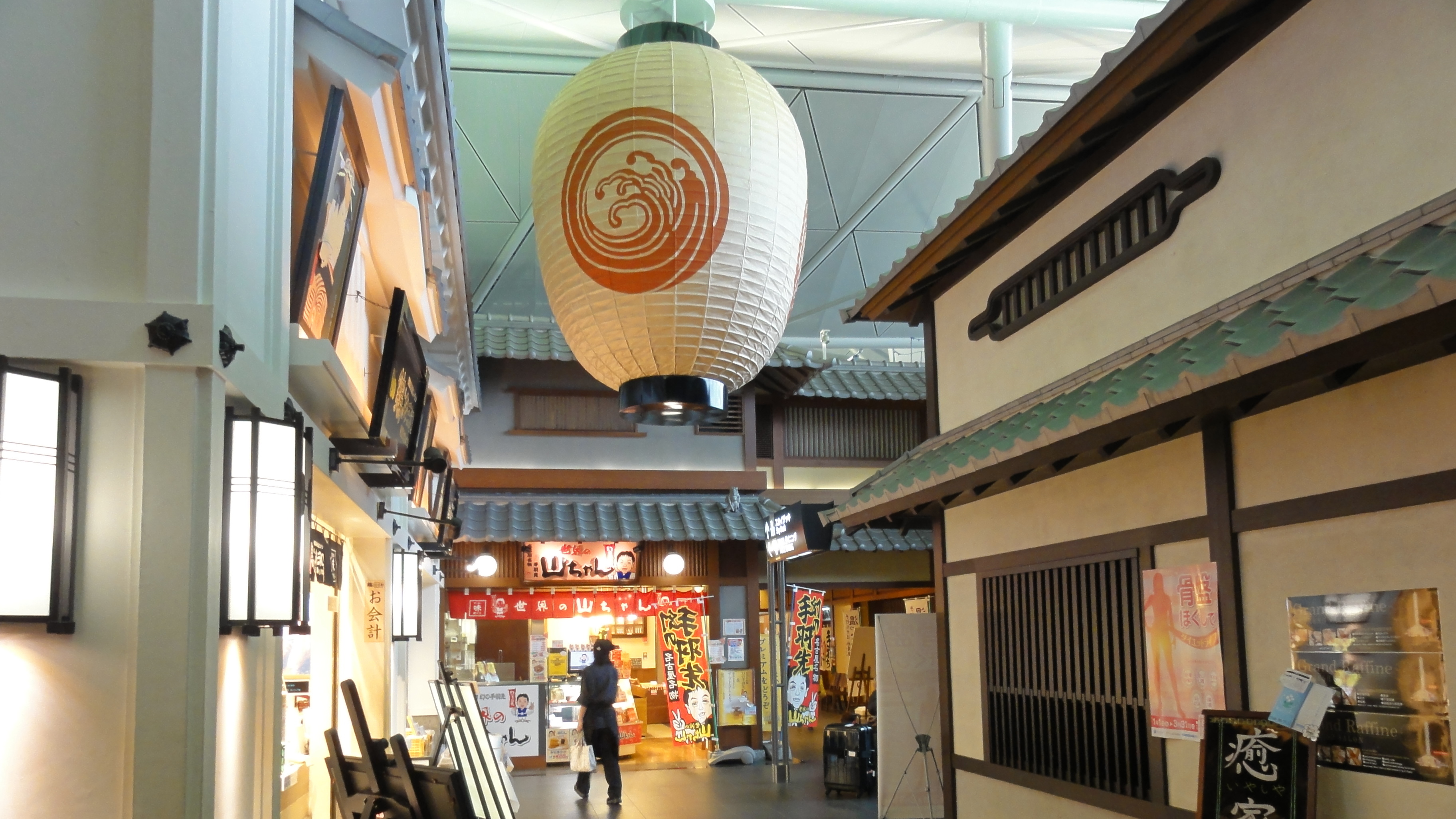 Chochin-yokotyo in Central Japan International Airport,Aichi Prefecture, Japan